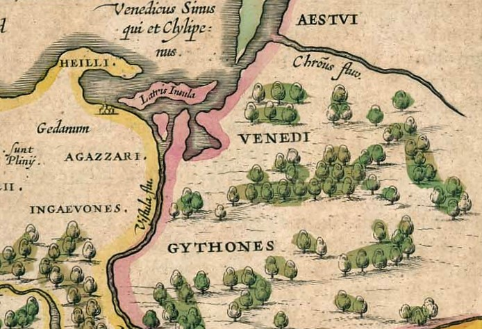 Western Baltic culture in the 2nd century